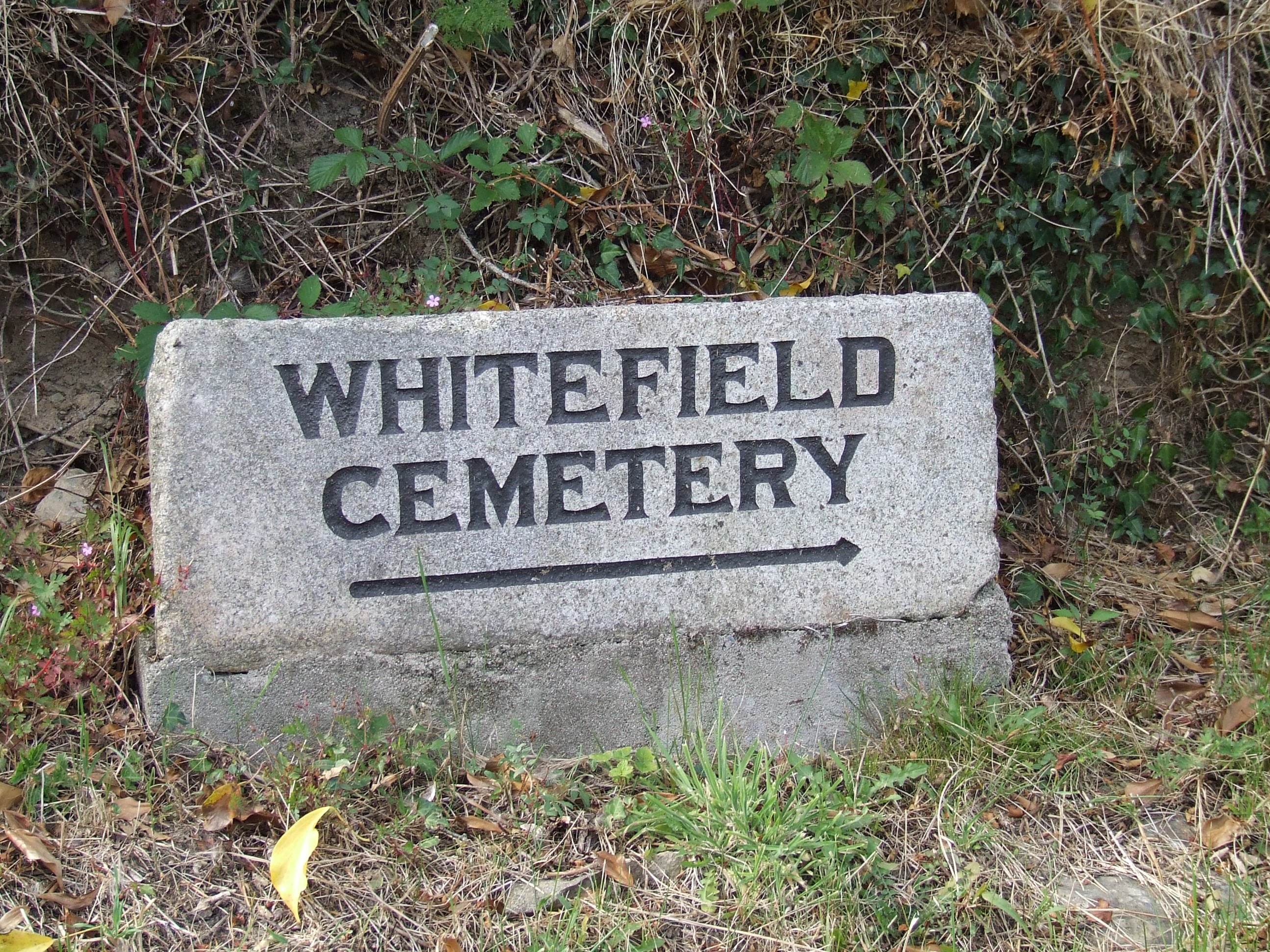 Marker stone for Whitefield Cemetery in Tinahely, County Wicklow in the parish of Kilaveny.